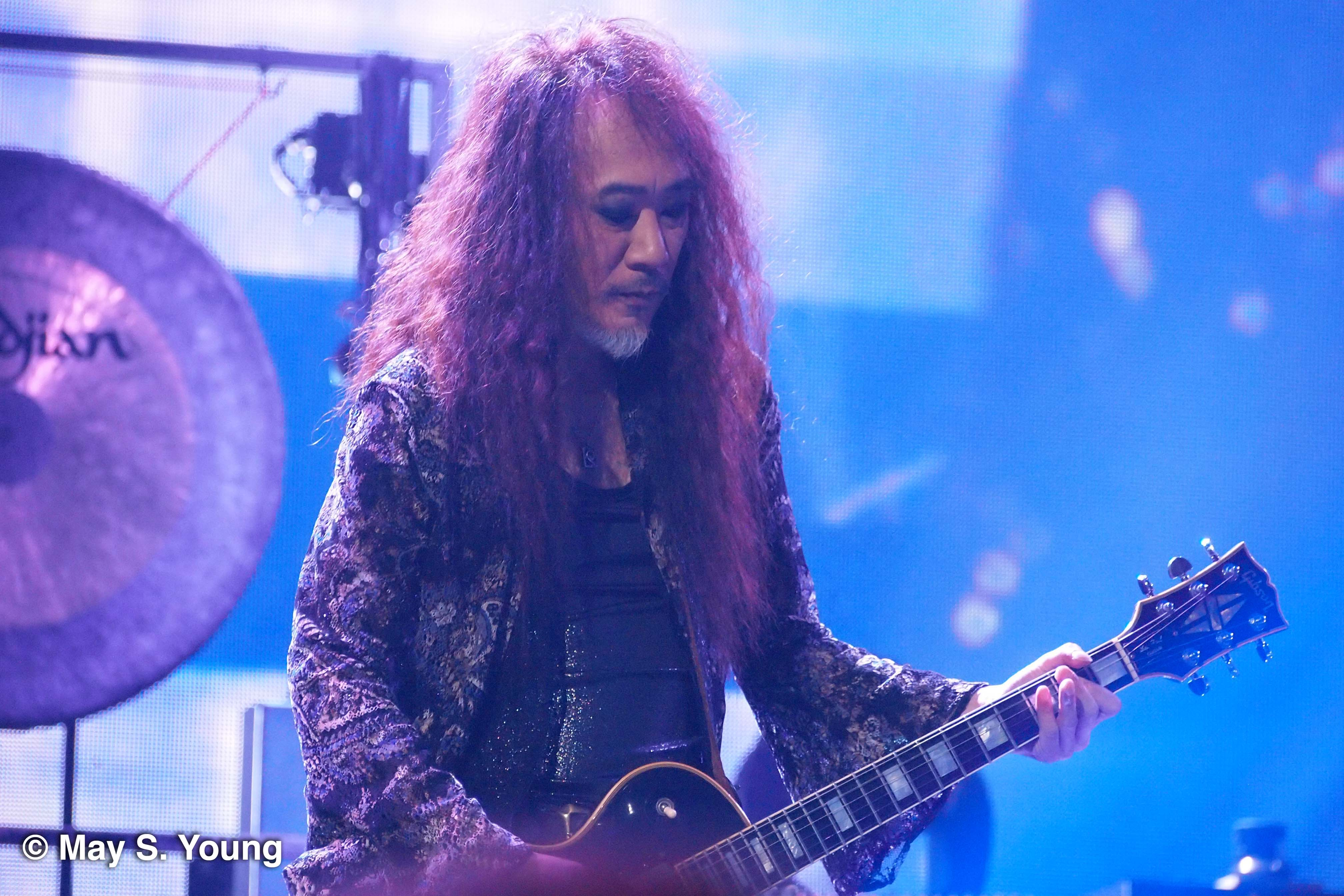 Pata with X Japan at Madison Square Garden, in New York, on October 11, 2014.